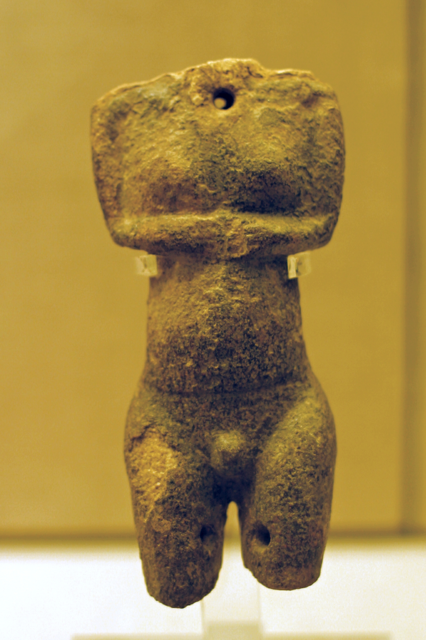 Idol, Cycladic figurine, darker stone. Torso with a hole in the throat and dírkama thighs. Plastiras type, EC I, 2800-2700 BC. Prehistoric Museum of Thira N 24, Inv. no. 6858.